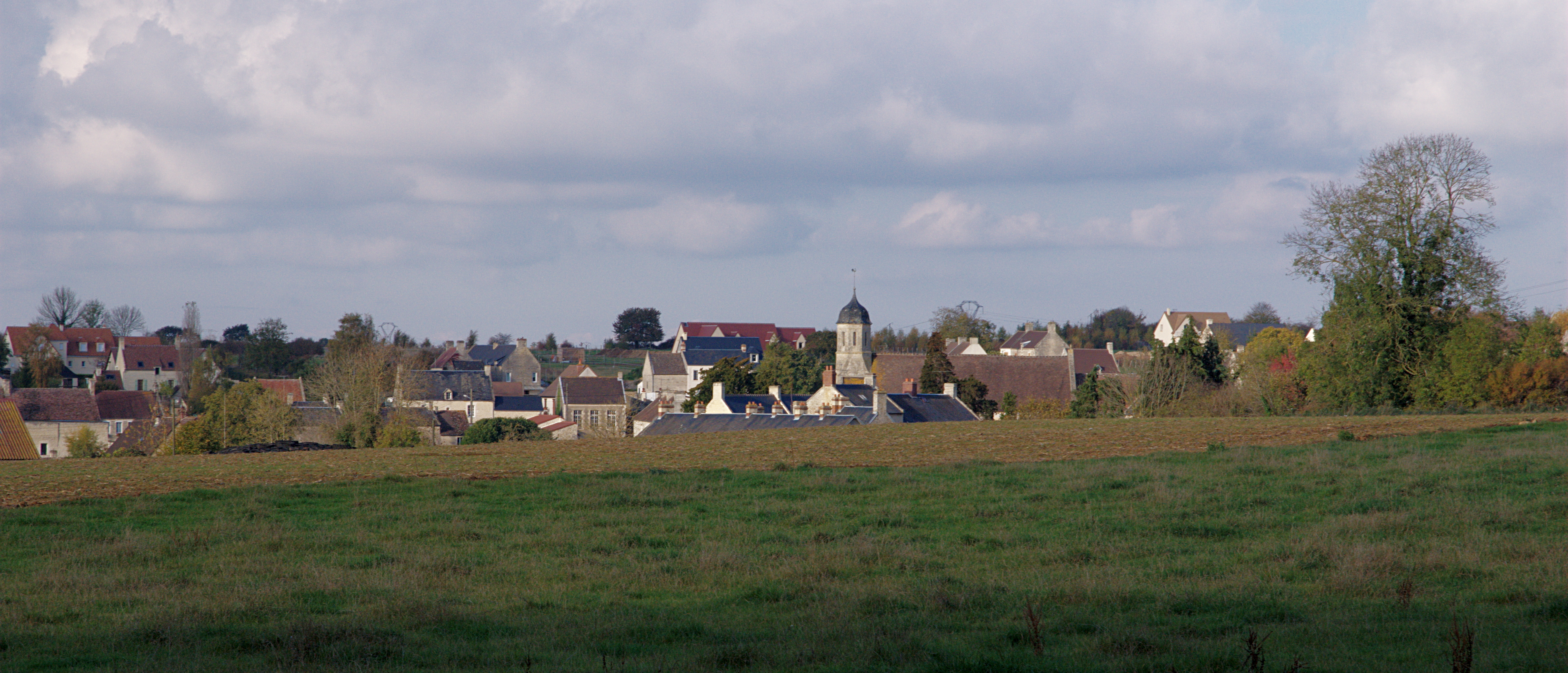 Gouvix village in Calvados, French.